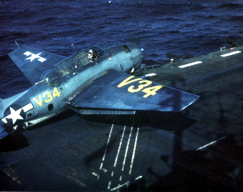 A pilot of an Advanced Carrier Training Group Pacific (ACTGPac) Grumman TBM Avenger taxis to the port catapult of the U.S. Navy escort carrier USS Matanikau (CVE-101) during training exercises off San Diego, California (USA). Matanikau was engaged in carrier qualifications for the U.S. Pacific Fleet from October 1944 to July 1945.